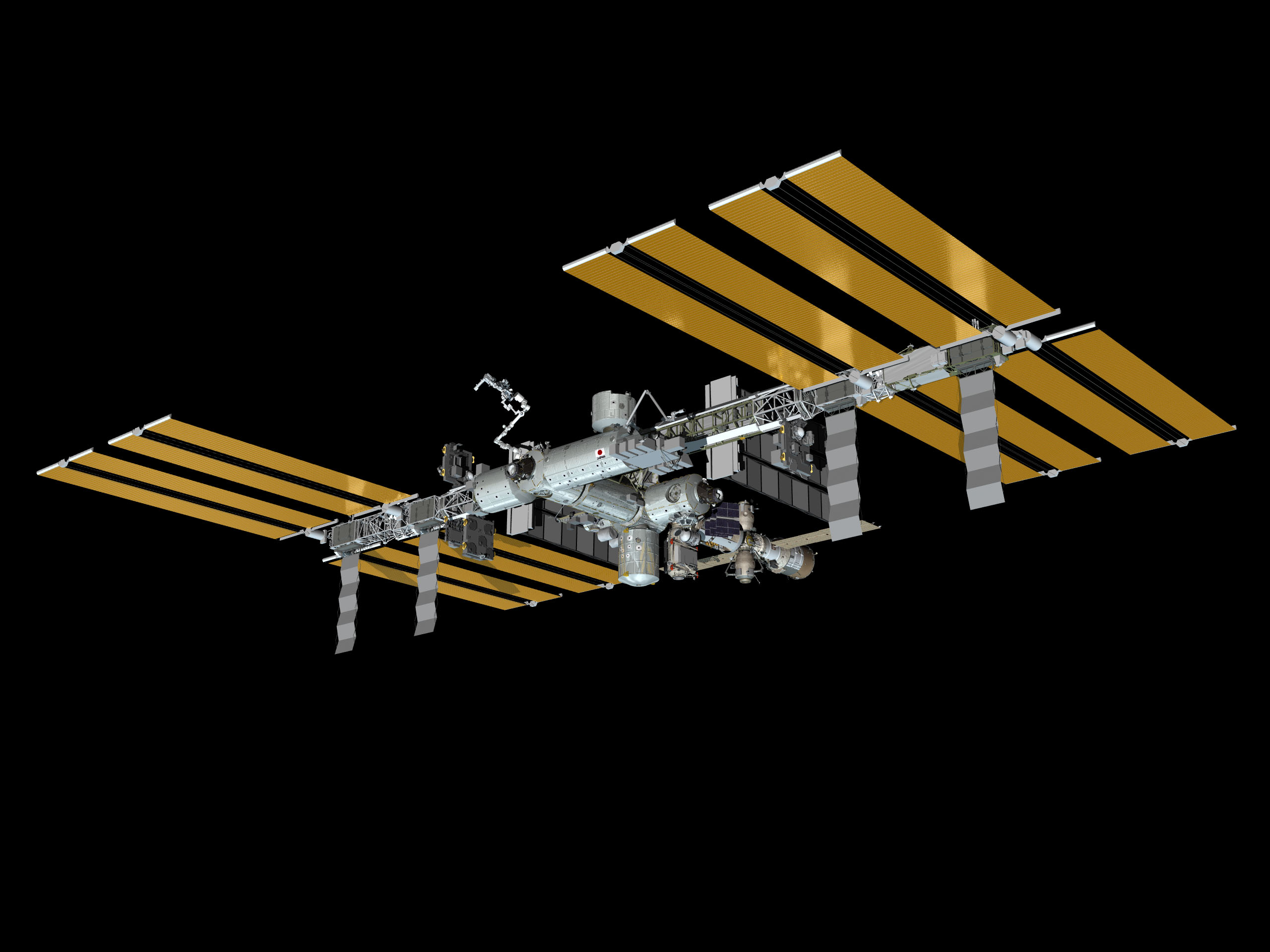 JSC2010-E-131924 (November 2010) --- Computer-generated artist's rendering of the International Space Station as of November 2010. Flight STS-133/ULF5 depicting the addition of the ExPRESS Logistics Carrier 4 (ELC4) and Permanent Multi-Purpose Module (PMM). Please note description is inaccurate because STS-133 was delayed and PMM installation didn't occur until March 1st, 2011.